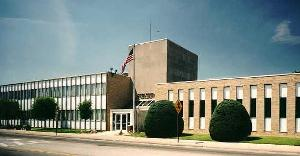 Exterior of the U.S. District Court for the Southern District of Illinois in Benton, Illinois. The Benton Federal Building and U.S. Courthouse is located a block from the town square and approximately 300 miles south of Chicago. Constructed in 1959, the two-story building houses U.S. District and Bankruptcy courts. The Benton Courthouse was constructed in 1959 from steel and block with brick veneer and clip-on aluminum panels. After the Postal Service vacated the east end of the first floor of the building in 1989, the vacant space was converted into a Bankruptcy courtroom, judge's chambers, and Clerk of the Court’s office.